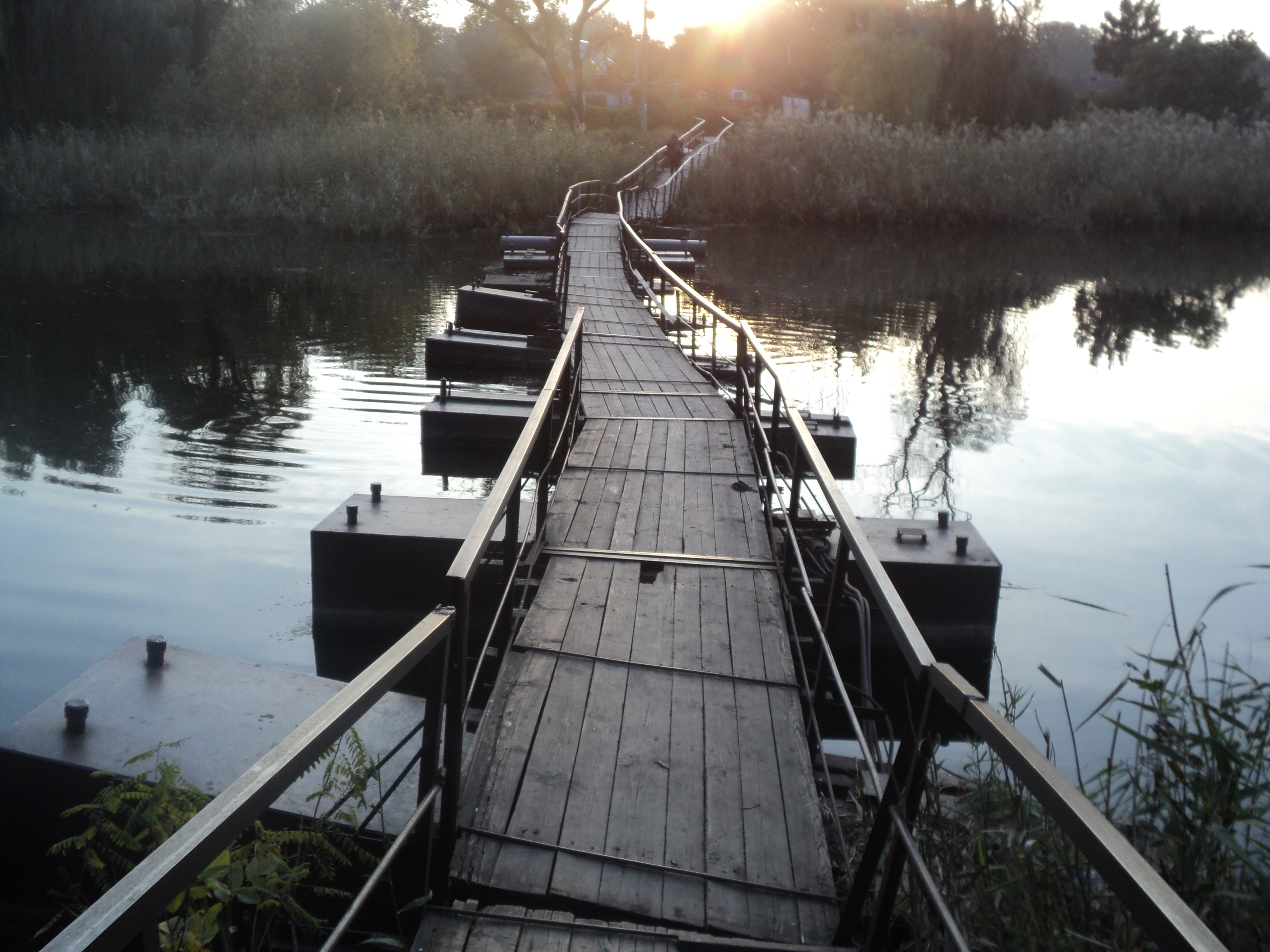 Pontoon bridge across Ingulets on rajon Southern GZK towards the village Motrenivka